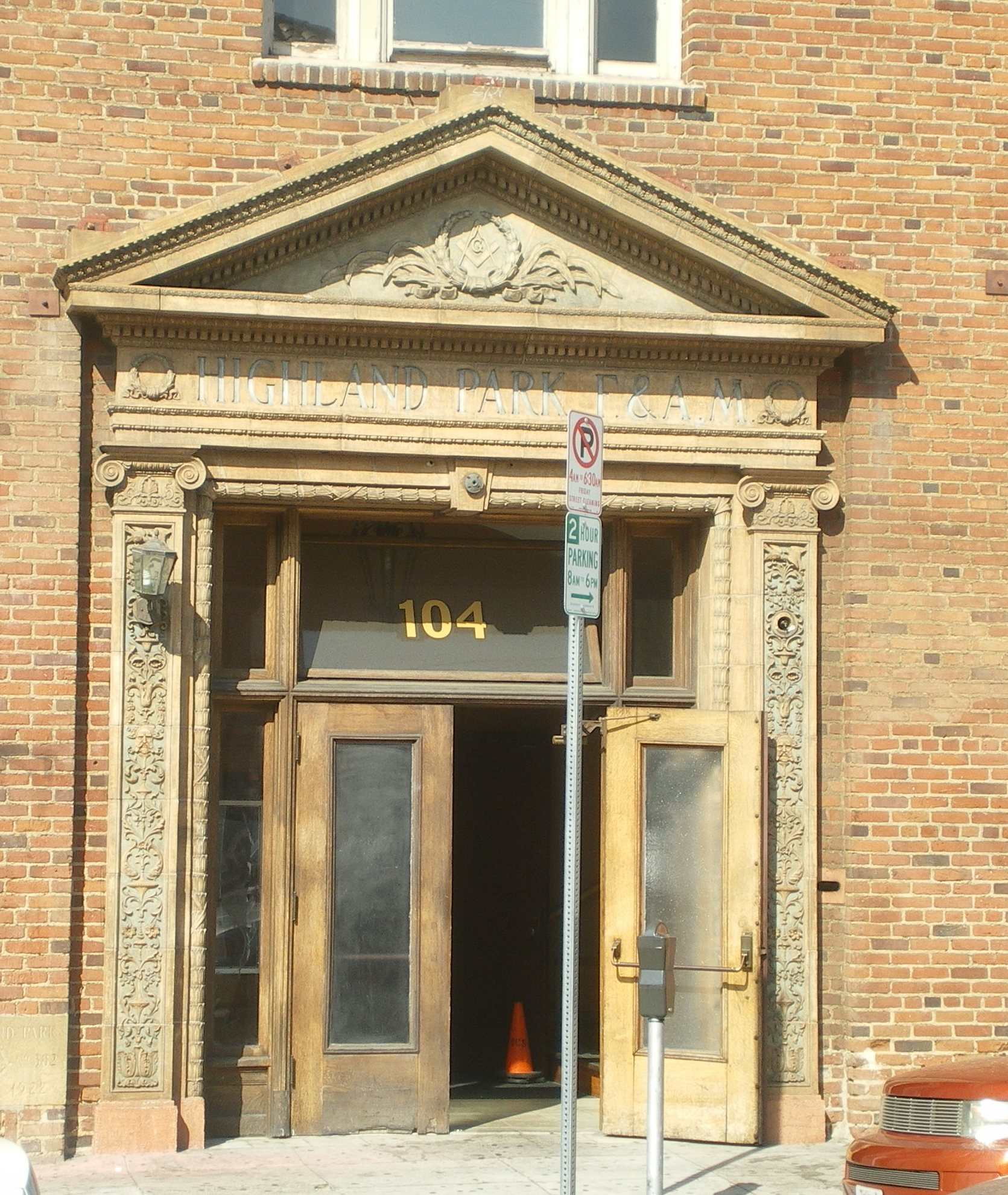 Highland Park Masonic Temple, Main Entrance, 104 N. Avenue 56, Highland Park, Los Angeles, California